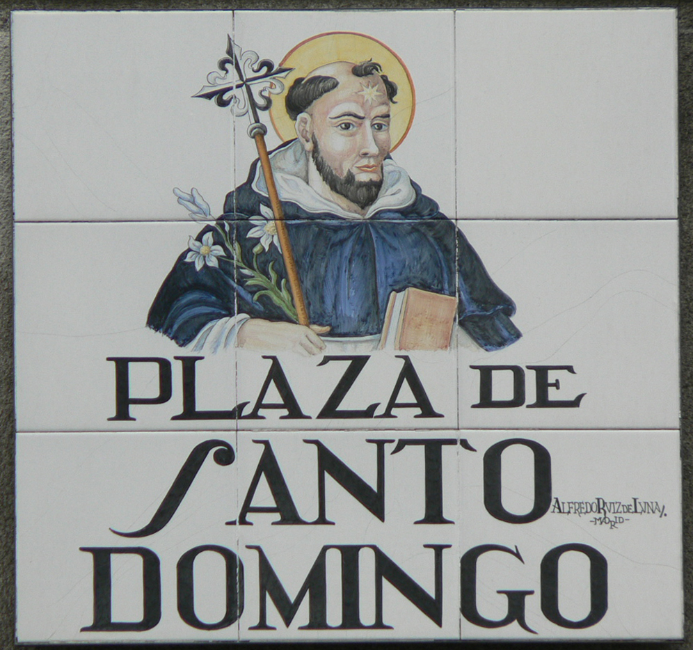 Sign of Plaza de Santo Domingo (square, Centro district) in Madrid (Spain).